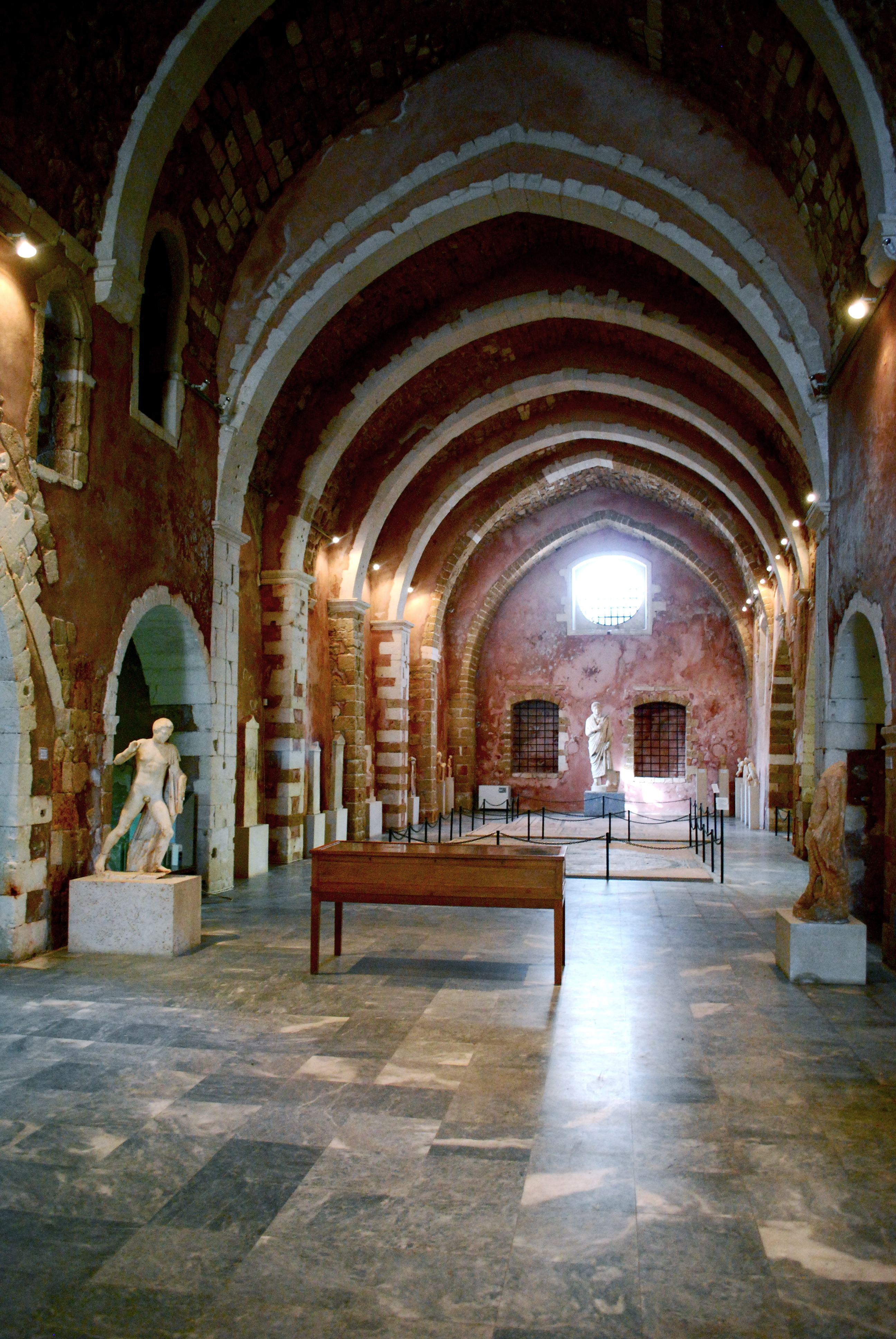 Intern of Museum (Chania, Crete).